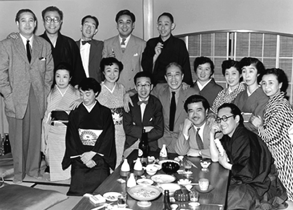 A gathering of the Misoji-kai ("Forever Thirty-something Club"). Back row (l-r): actor Shōgo Shimada (1905–2004), playwright Minoru Nakano (1901–73), illustrator Sentarō Iwata (1901–74), actor Kazuo Hasegawa (1908–84), Kabuki actor Kanya Morita XIV (1907–75). Middle row (l-r): Mrs. Nakano, Mrs. Shimada, Mrs. Tatsumi, screenwriter Ryōtarō Ōe (1900–74), actor Kan Ishii (1901–72), Mrs. Hayashi, Mrs. Hasegawa, Mrs. Ishii, Mrs. Iwata. Front row (l-r): producer/promoter Hirotaka Hayashi (1907–71), actor Ryūtarō Tatsumi (1905–89).